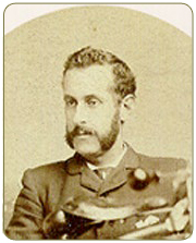 Circa 1900 photograph of Harvey Hubbell II inventor, electrical engineer and founder of Harvey Hubbell Incorporated in Bridgeport, Connecticut. Born 1857, died 1927.